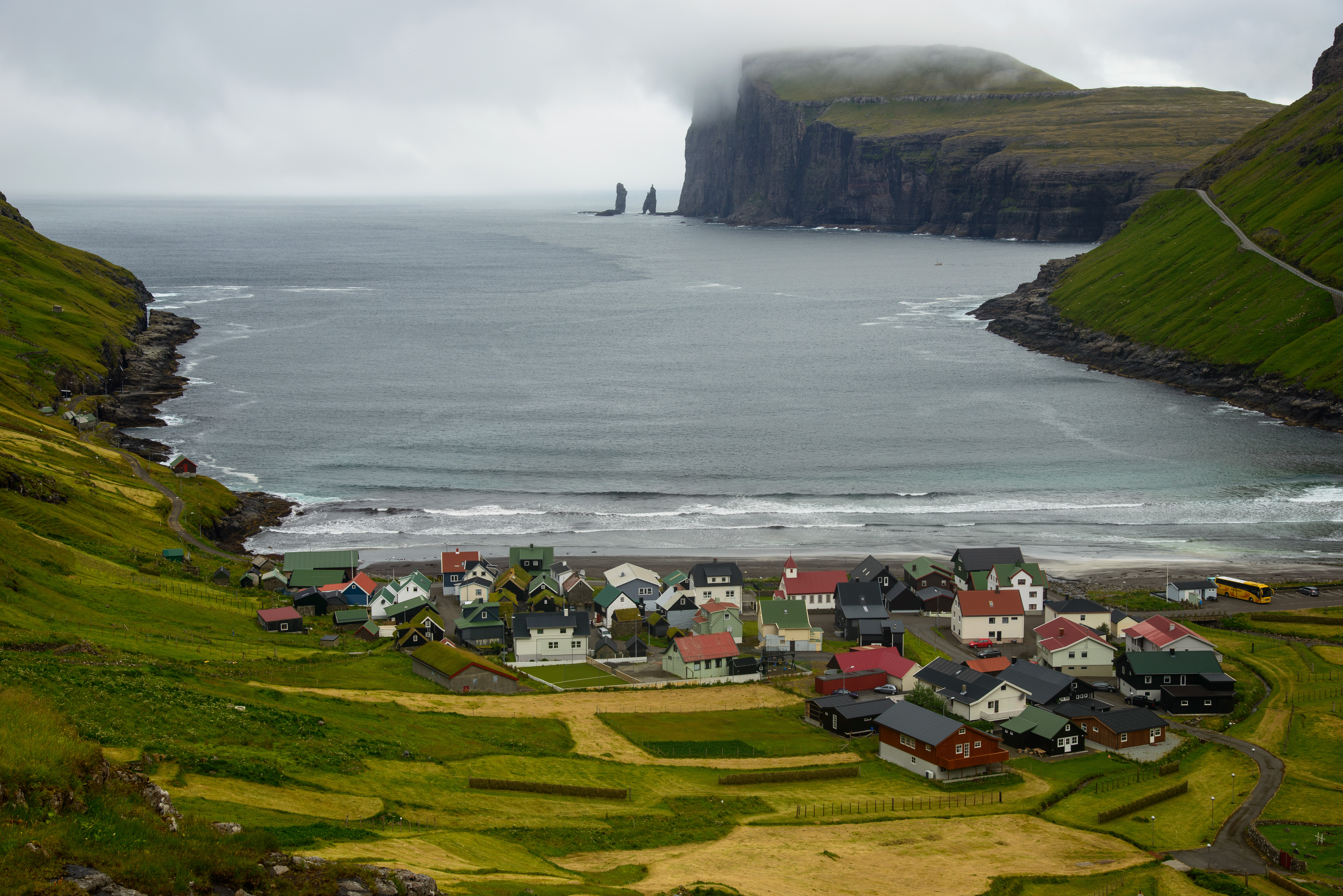 Tjørnuvík in the Faroe Islands.